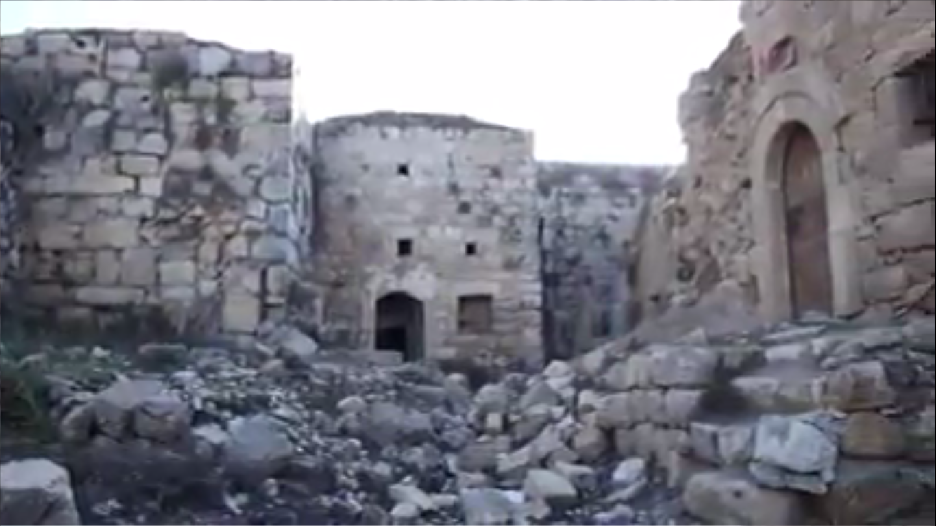 الحوش - رافات